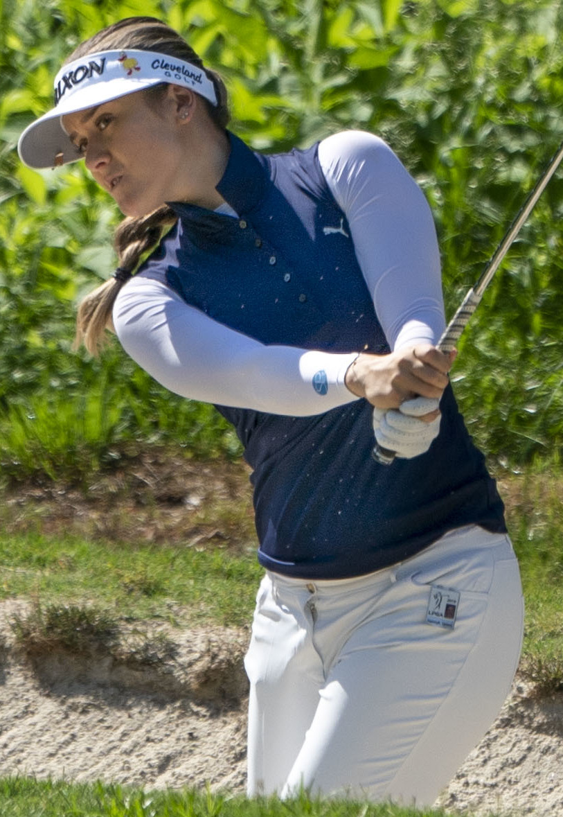 Pure Silk Championship 2019